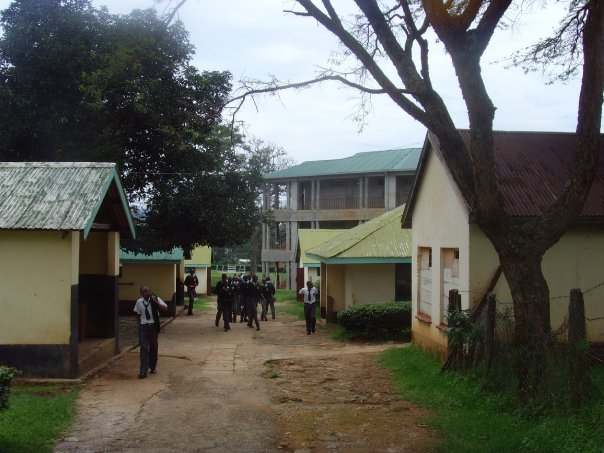 students in the daily life